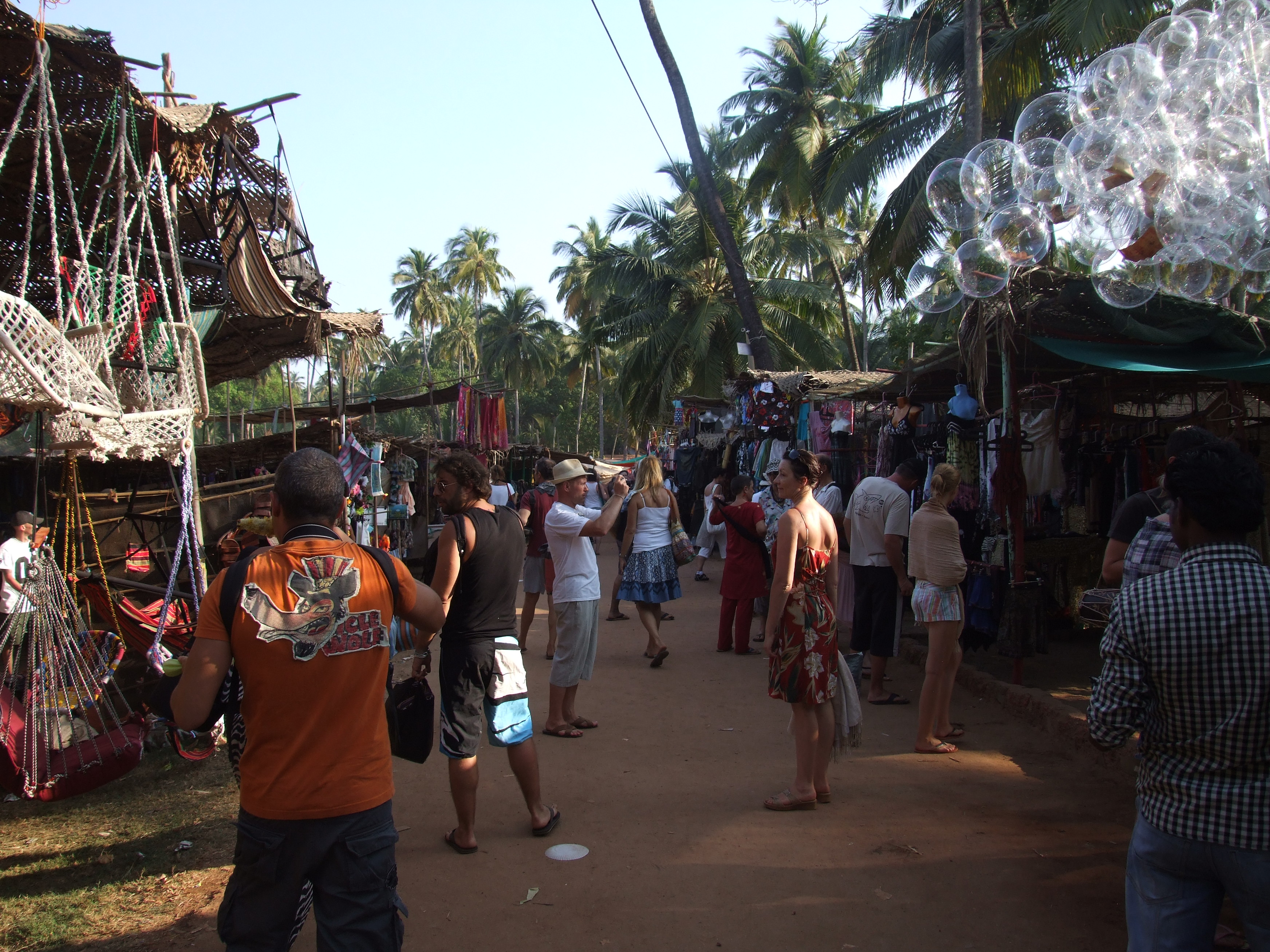 Hippie market in Anjuna